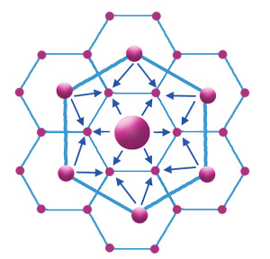 Christaller's first model of distribution of cities on space, according to the market principle.